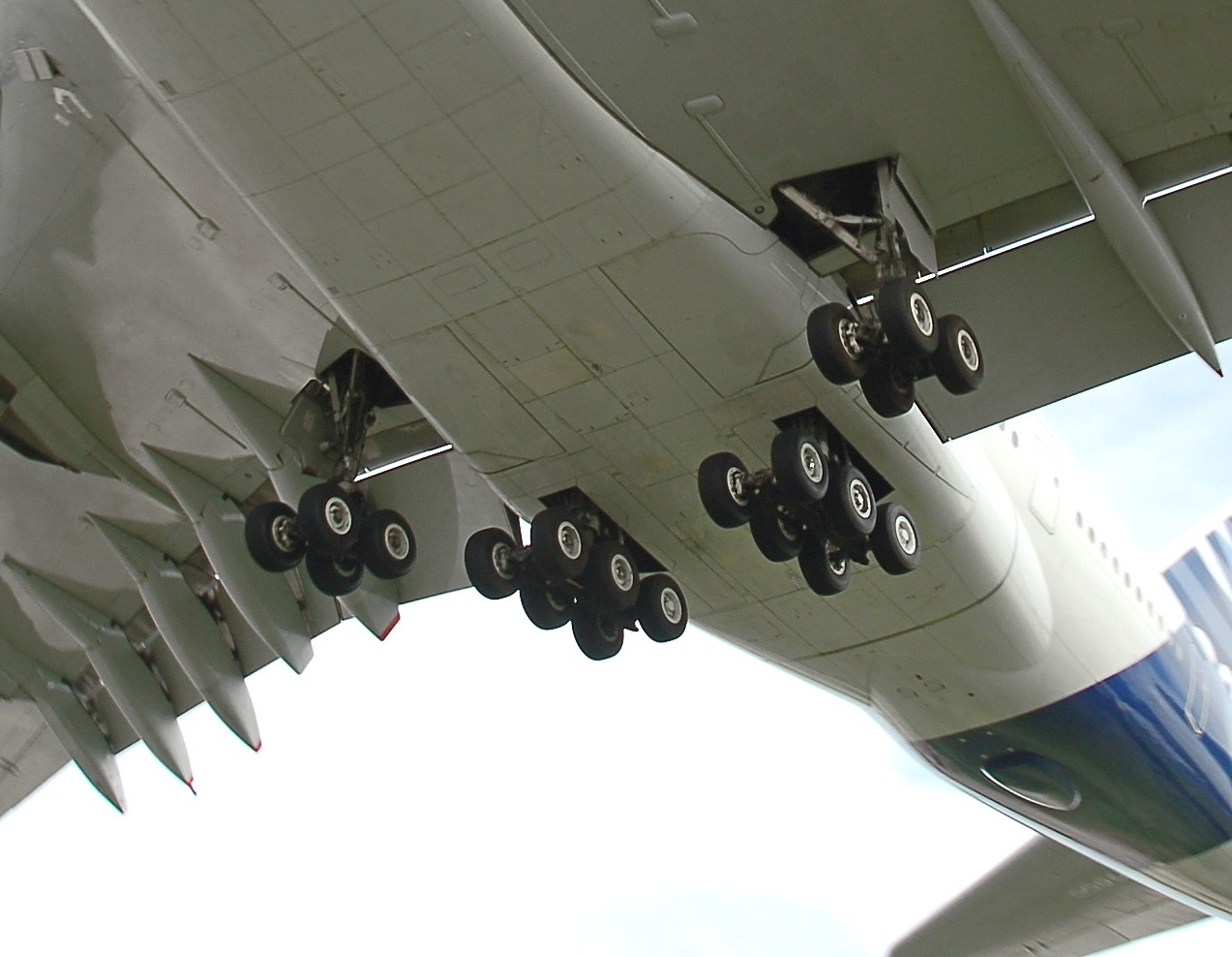 Airbus-owned A380-800 (F-WWDD) demonstrating at Filton Airfield, Bristol, England, in 2010.